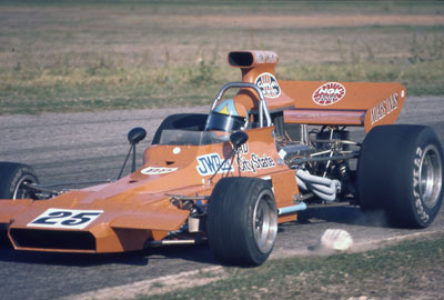 Johnnie Walker in the Matich A50 at Surfers Paradise International Raceway for the Glynn Scott Memorial Trophy, 27th August 1972. Photo by Graham Ruckert.